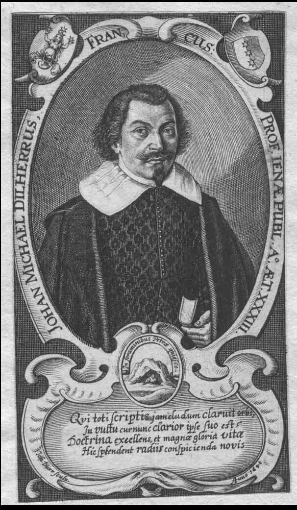 Portrait of Johann Michael Dilherr, copper engraving 103x63 mm